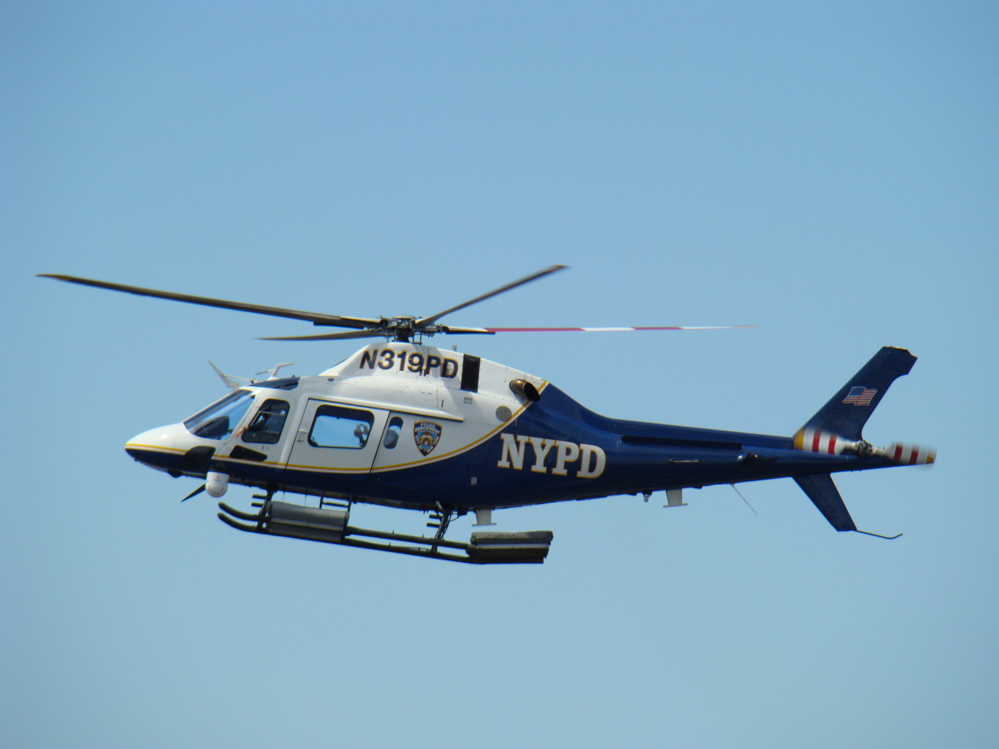 NYPD helicopter patrolling New York City. Photo taken from the Empire State Building Observatory.